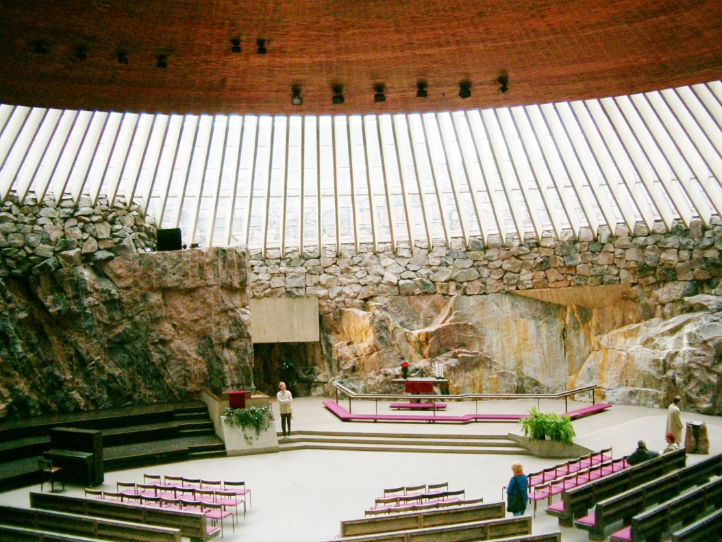 The Temppeliaukio Church in Helsinki, Finland. The altar.